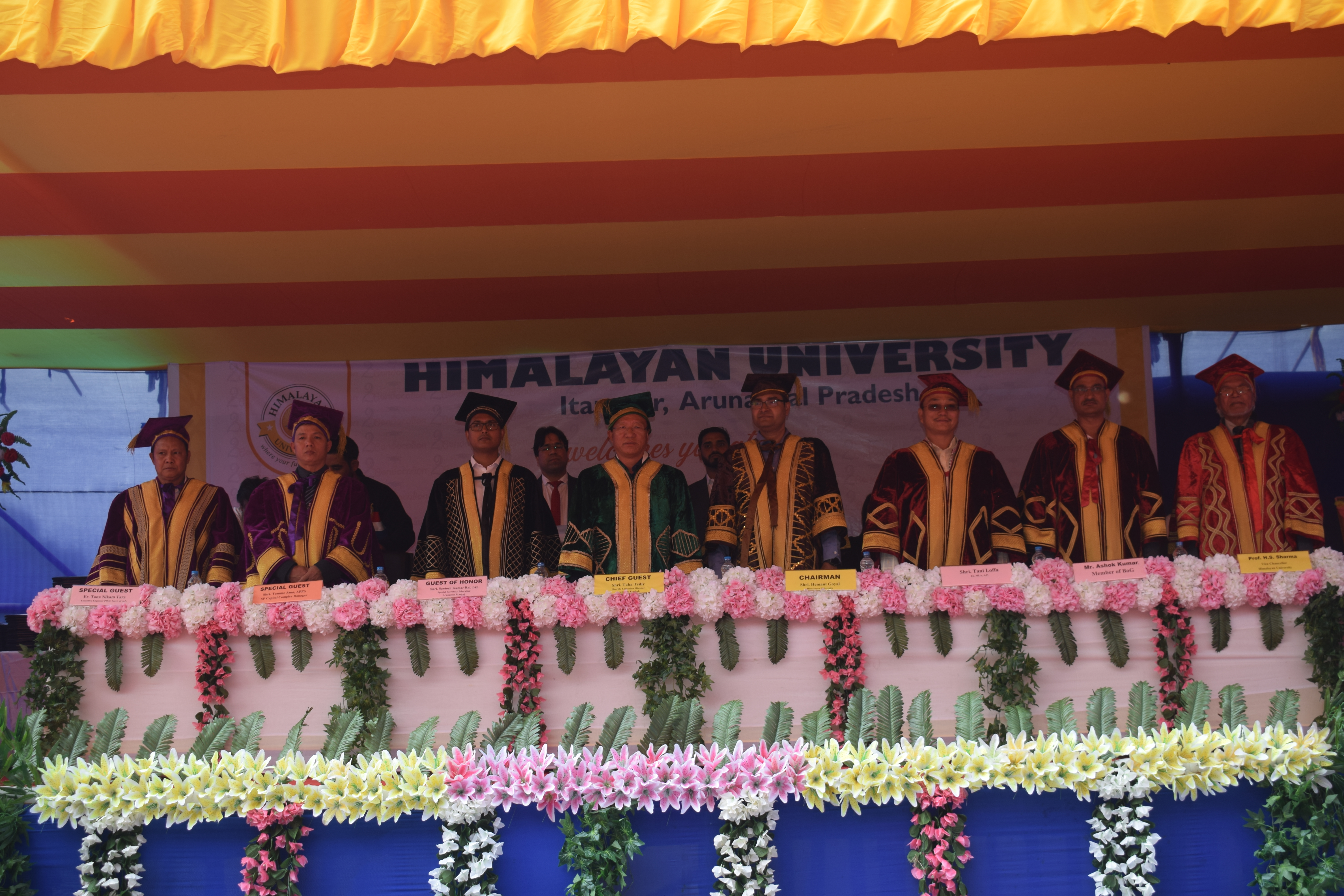 Himalayan University had conducted its 2nd Convocation on 21-Feb-2020 in its Jollang Campus Itanagar.